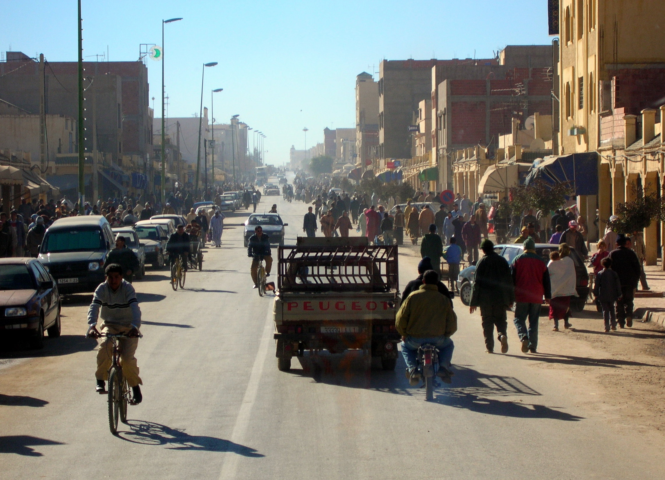 Azrou, Morocco